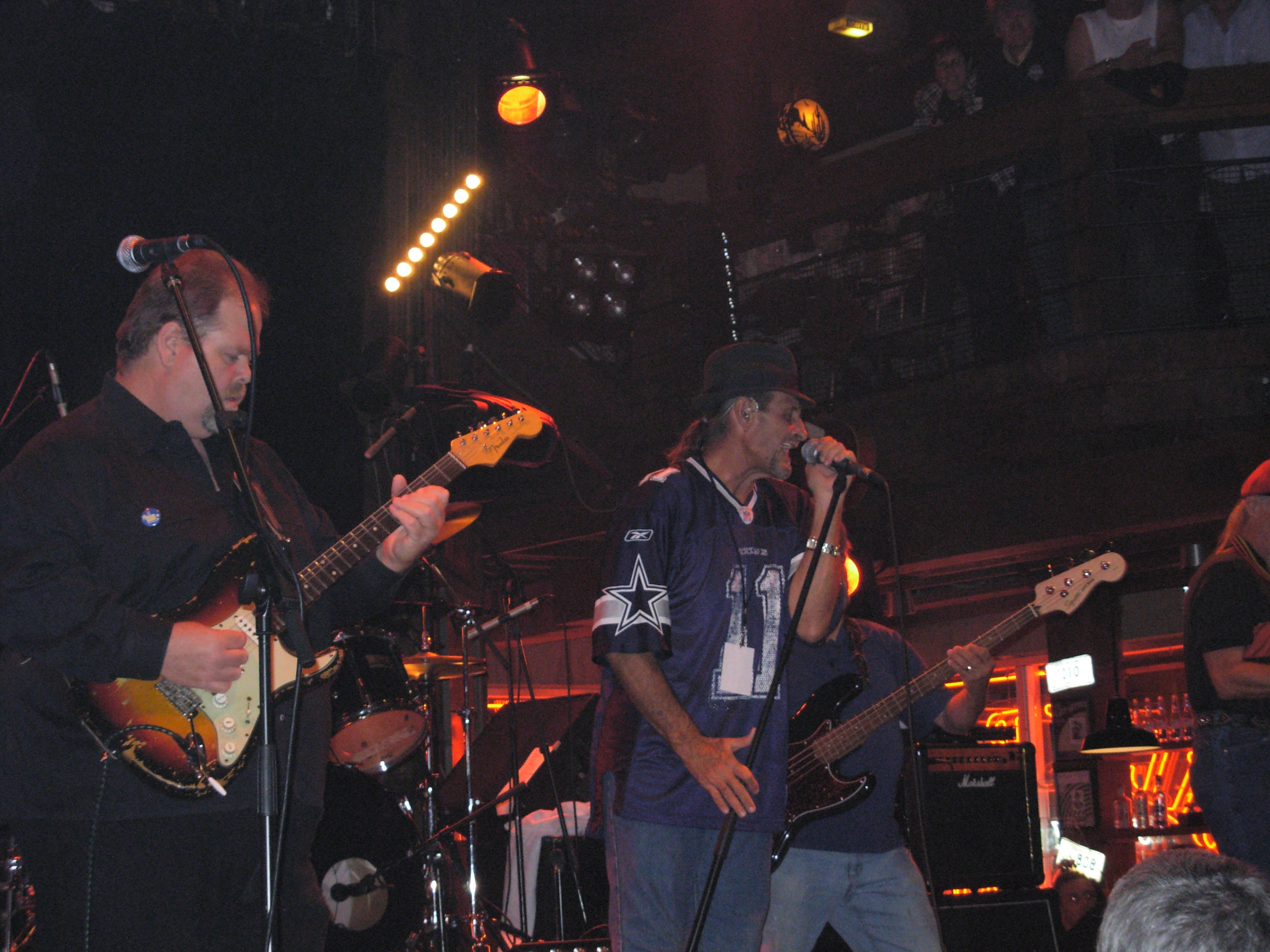 Point Blank au Billy Bob's France